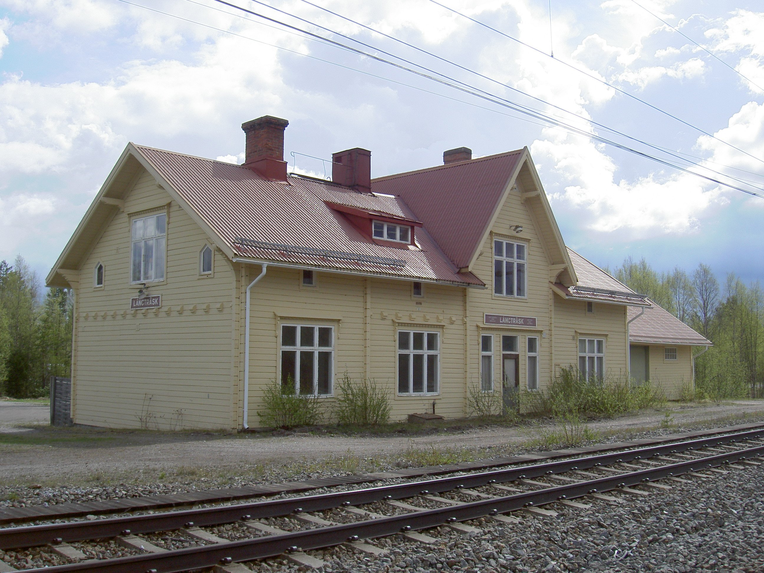 The railway station in Långträsk, Piteå municipality, Norrbotten County.